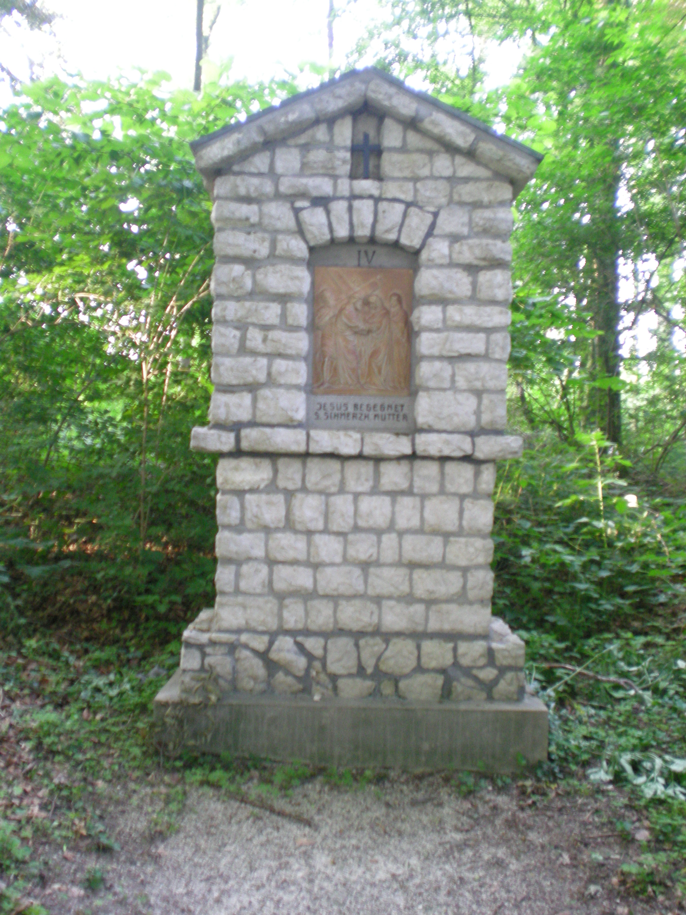 Hellingbos, Simpelveld, Kruiswegstatiekapelletjes